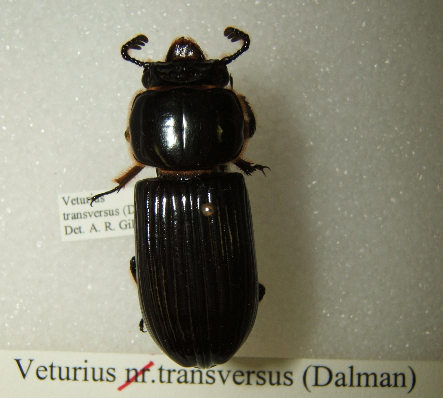 Veturius transversus adult taken by Shawn Hanrahan at the Texas A&M University Insect Collection in College Station, Texas.